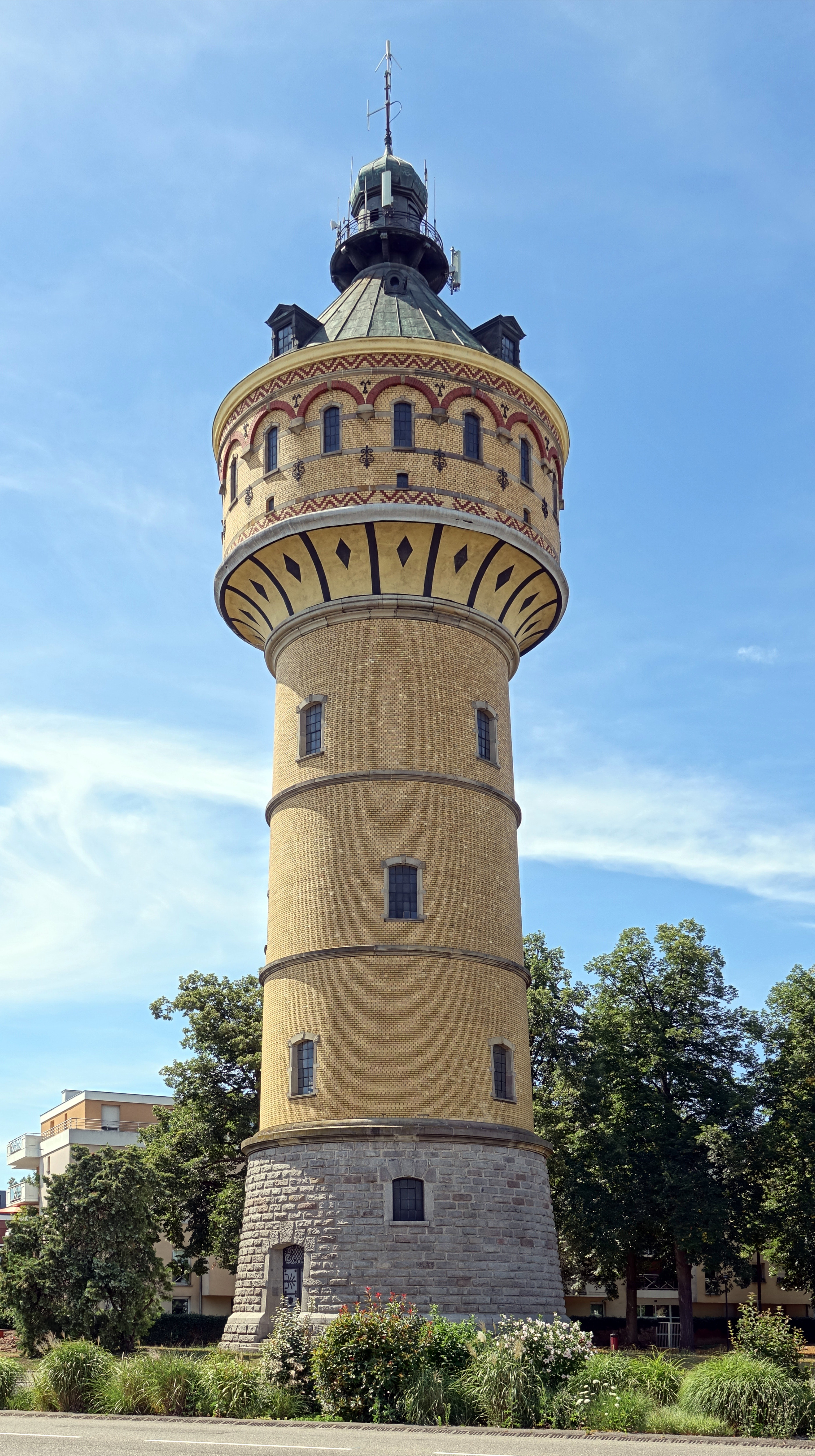 Water tower of Sélestat (Bas-Rhin, France).